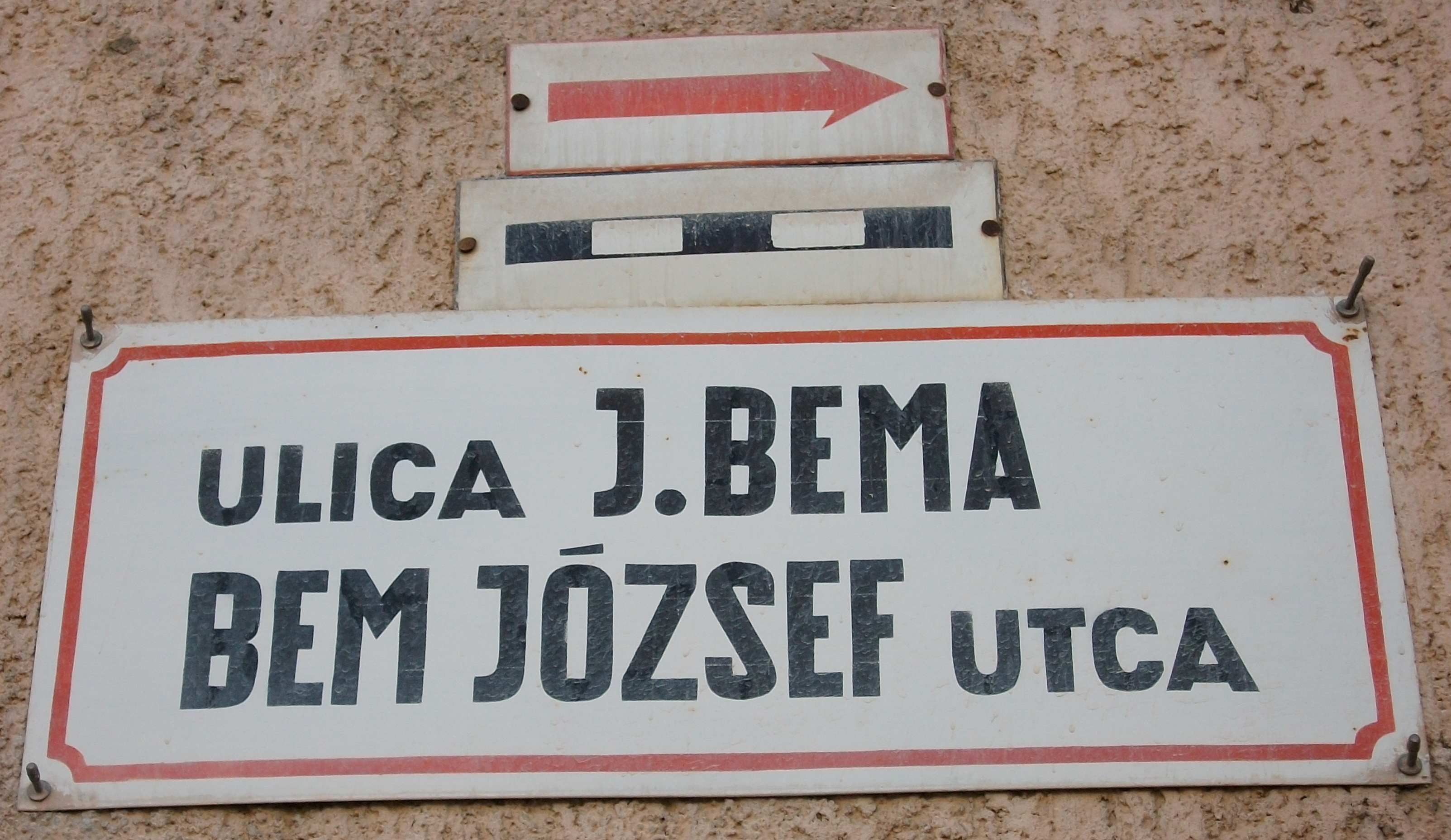 Bilingual (Slovak and Hungarian) street sign (Bem street), Štúrovo/Párkány, Slovakia